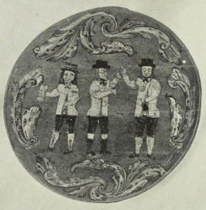 Folk art by norwegian rose painter Olav Hansson, ca 1750-1820. Title/theme: Preparing for a marriage proposal